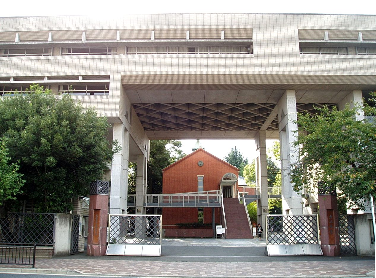 The main gate of Otani University, located in Kita-ku, Kyoto, Japan.